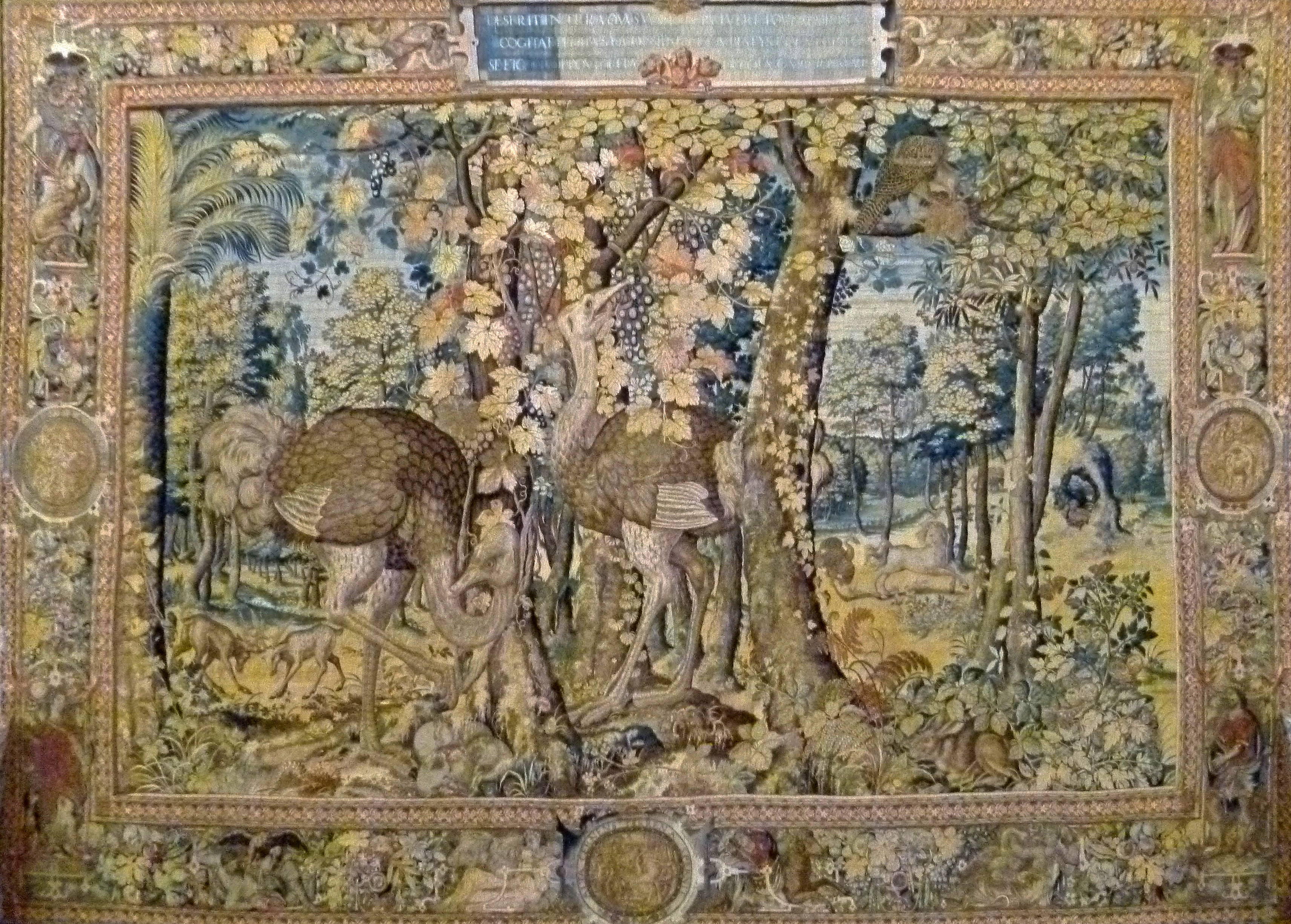 Ostriches (representing the Church in Saint Jerome); woven in Brussels in the workshop of Pieter Coecke van Aelst (about 1565), after a drawing by Michiel Coxie (1499-1592); Tapestry Gallery, Borromeo Palace, Isola Bella, Lago Maggiore, Italy